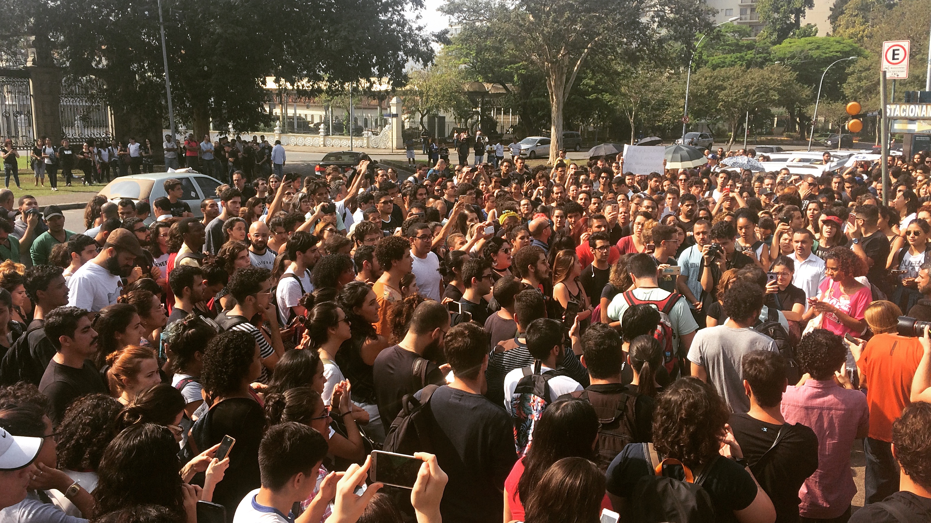 Protest after Brazil's national museum fire